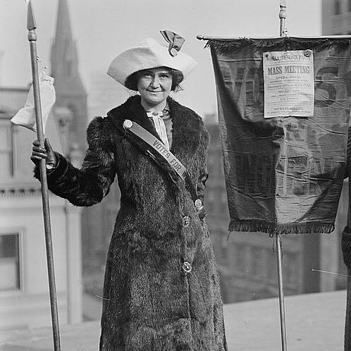 Bain News Service,, publisher. Mrs. J. Hardy Stubbs, Miss Ida Craft, Miss Rosalie Jones circa 1912-1913 [between 1910 and 1915] 1 negative : glass ; 5 x 7 in. or smaller. Notes: Title from data provided by the Bain News Service on the negative. Photo shows 3 suffragettes with bag "Votes for Women pilgrim leaflets." Forms part of: George Grantham Bain Collection (Library of Congress). Format: Glass negatives. Repository: Library of Congress, Prints and Photographs Division, Washington, D.C. 20540 USA, General information about the Bain Collection is available at Persistent URL: Call Number: LC-B2- 2472-12